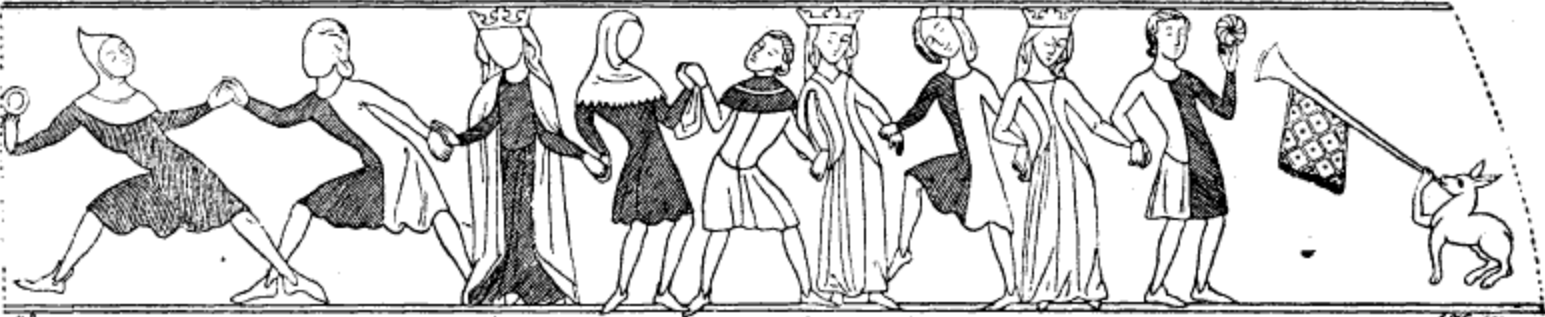 Dansefrisen − Frieze with dancing people, a fresco from ca 1325 in Ørslev Church by Skælskør, Slagelse Municipality, Denmark. A version with colors.